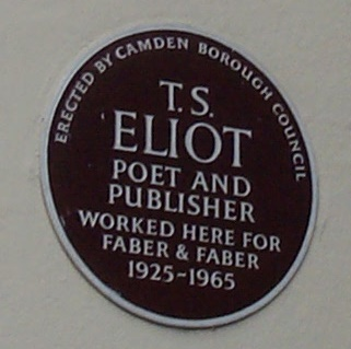 A plaque at SOAS's Faber House for T. S. Eliot.